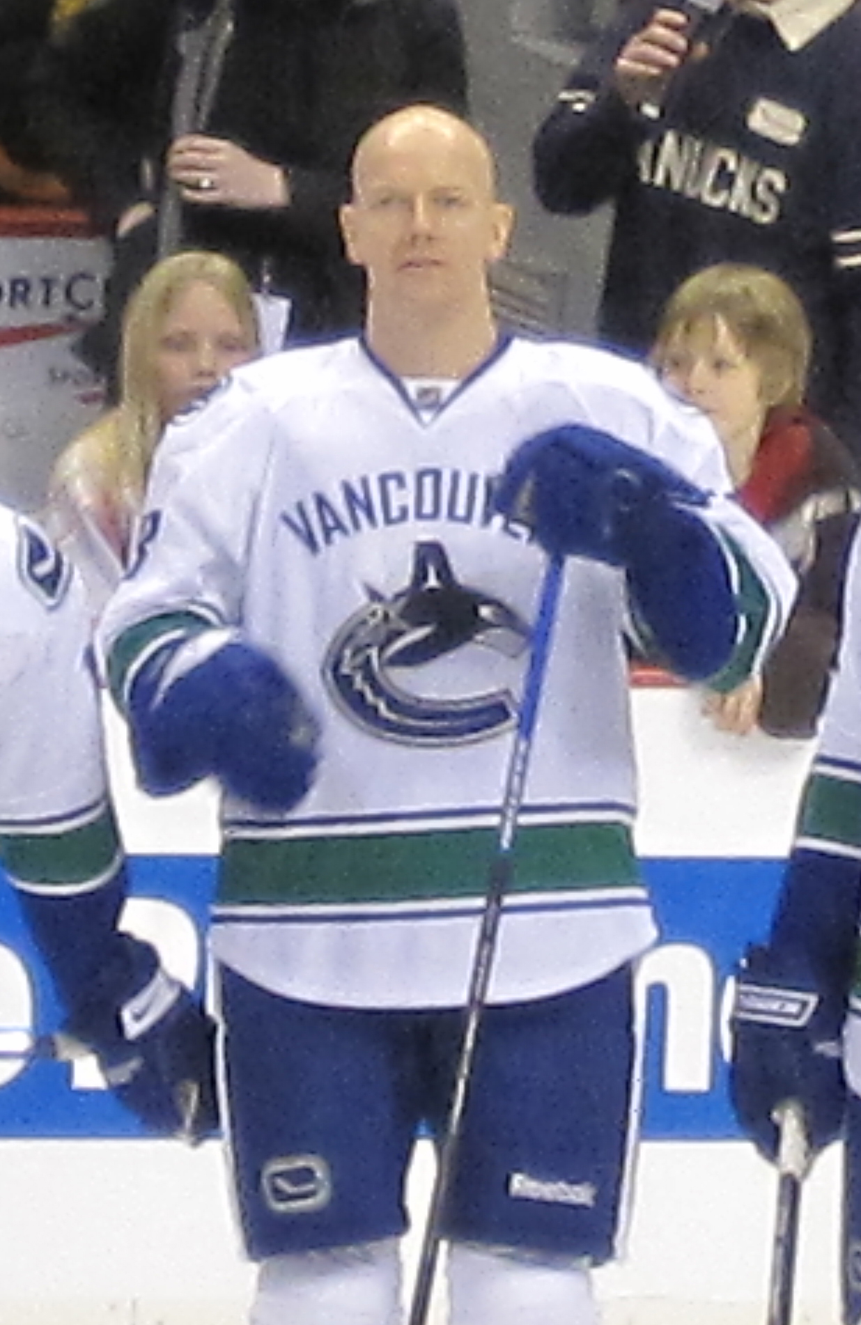 Mats Sundin taken at Canucks Super Skills 2009.